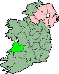 County Clare map, Ireland. 08:03, 5 February 2004 Morwen 200x249 (30615 bytes) (map)